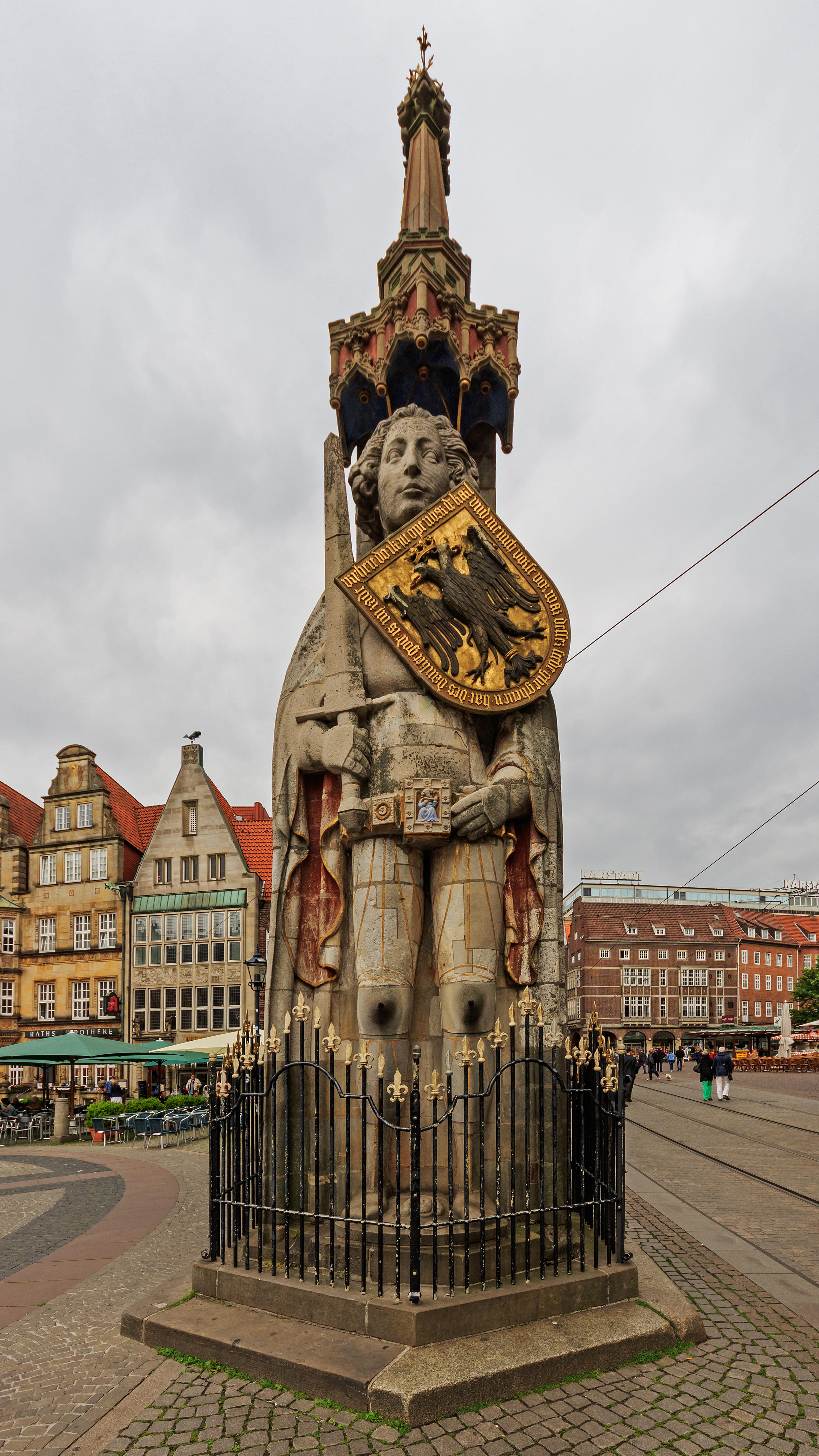 The Roland statue in Bremen, Germany